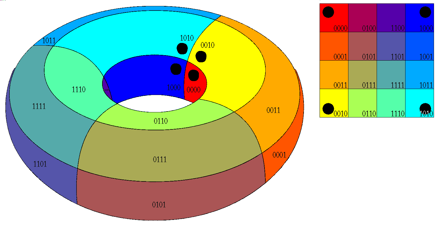 Shows a 4*4 Karnaugh map in a plane (right) and on a torus (left), consistently colored, and numbered; torus drawing based on File:Karnaugh map KV Torus 1.png